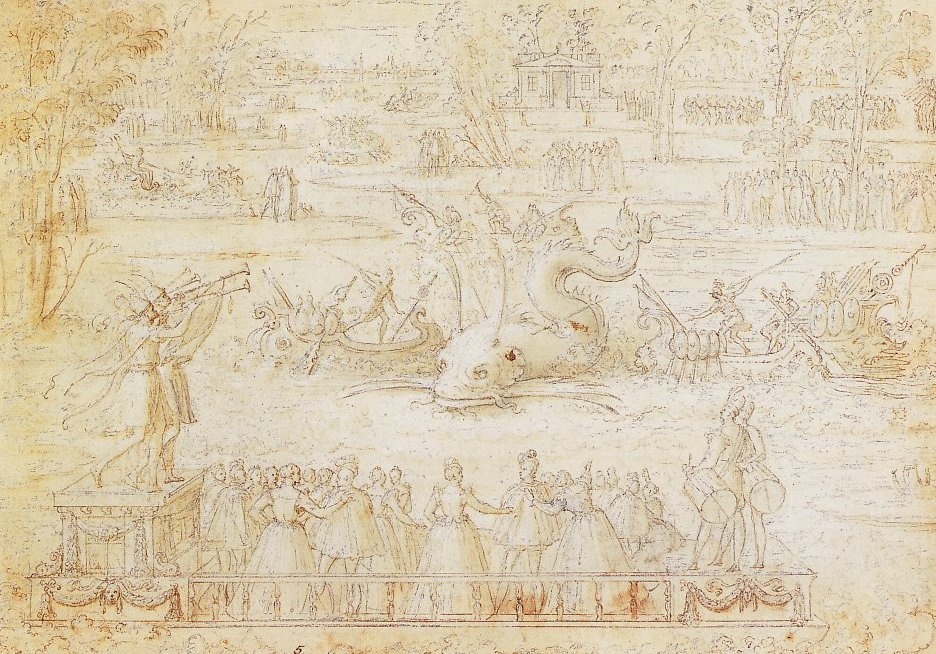 Water Festival at Bayonne. Black chalk, pen and ink wash. 35 × 49 cm. Pierpont Morgan Library, New York. La Fête de l'eau à Bayonne, le 24 juin 1565. Pierre noire, plume et encre brune. 35 × 49 cm. Pierpont Morgan Library, New York. This is a design for a tapestry illustrating the festivities at the summit meeting between the French and Spanish courts at Bayonne in 1565. The tapestry itself, finished no later than 1580–81, includes full-length figures in the foreground, possibly designed by a different hand.